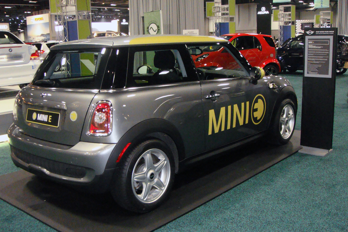 Rear view of the BMW Mini E (electric vehicle) at the 2010 Washington Auto Show